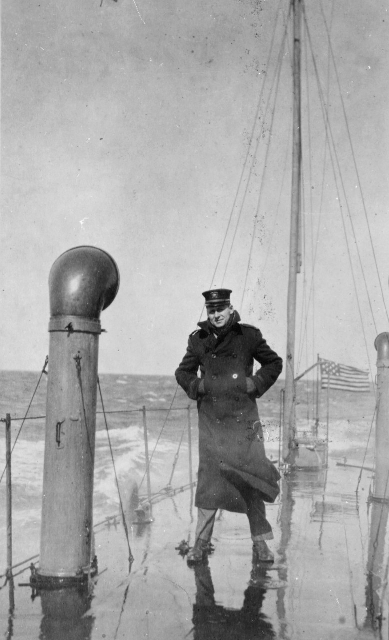 Ensign Paul F. Foster, USN photographed on board a submarine (possibly USS G-4), circa 1914-1915. Foster was awarded the Medal of Honor for his actions at Vera Cruz, Mexico, on 21-22 April 1914.